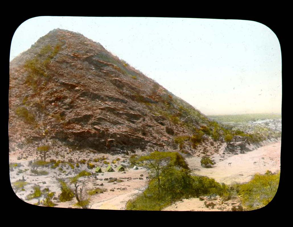 Jerato [Gellato] Pass. 1896. Name of Expedition: Africa Expedition Participants: D.G. Elliot and Carl Akeley Expedition Date: 1896 Purpose or Aims: Zoology Mammals Location: Africa, Somalia, Woqooyi Galbeed, Mandera, Jerato Pass, Golis Mountains Original material: Hand-colored glass lantern slide Digital Identifier: CSZ5982_LS Learn more about The Field Museum's Library Photo Archives.